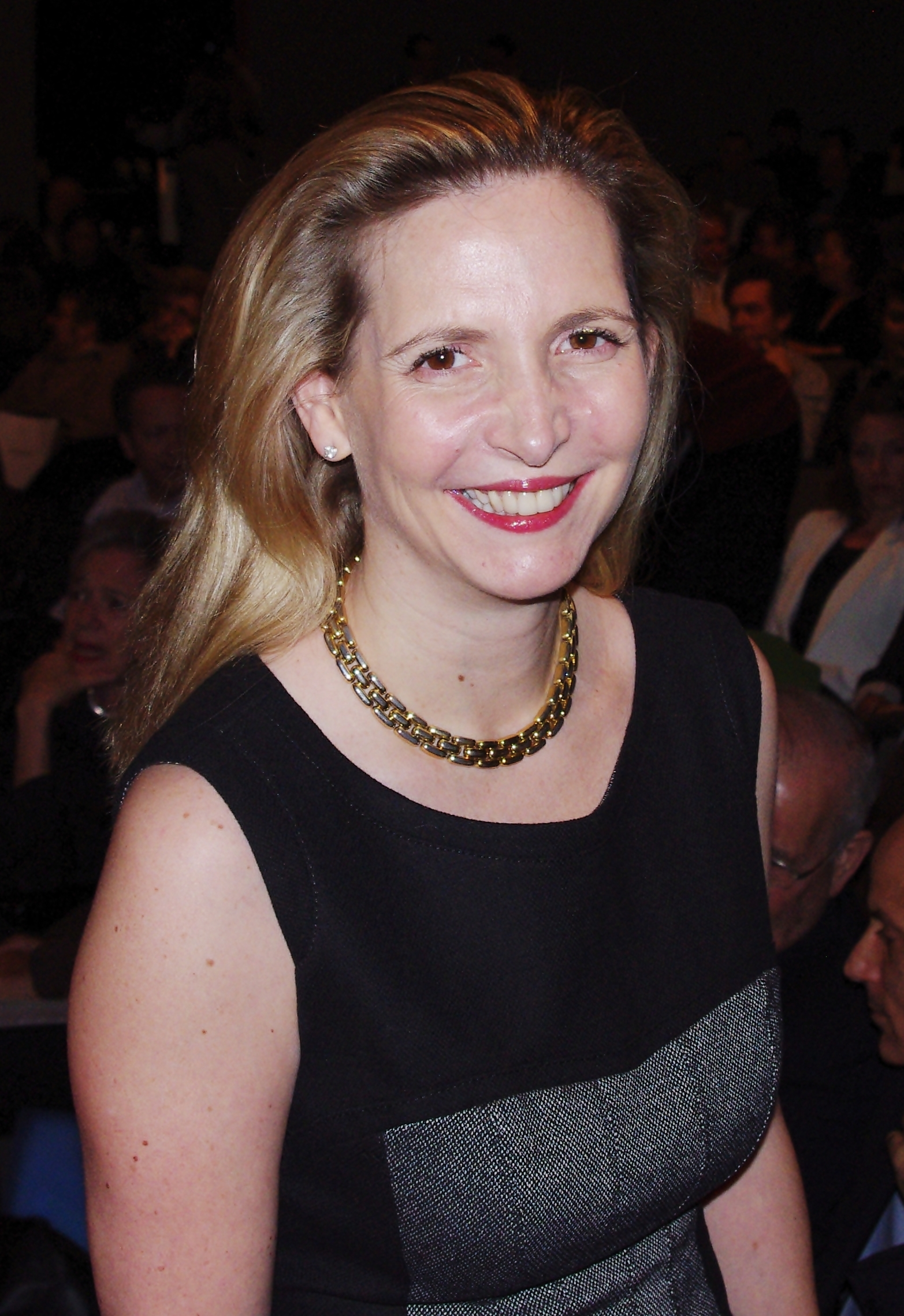 Poet Amanda Foreman at the National Book Critics Circle Awards for the 2011 publishing year.